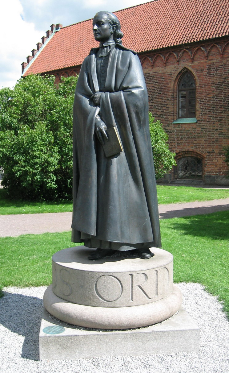 Statue of Henric Schartau (1757-1825) in Lund, Sweden. Made by Peter Linde 2003.